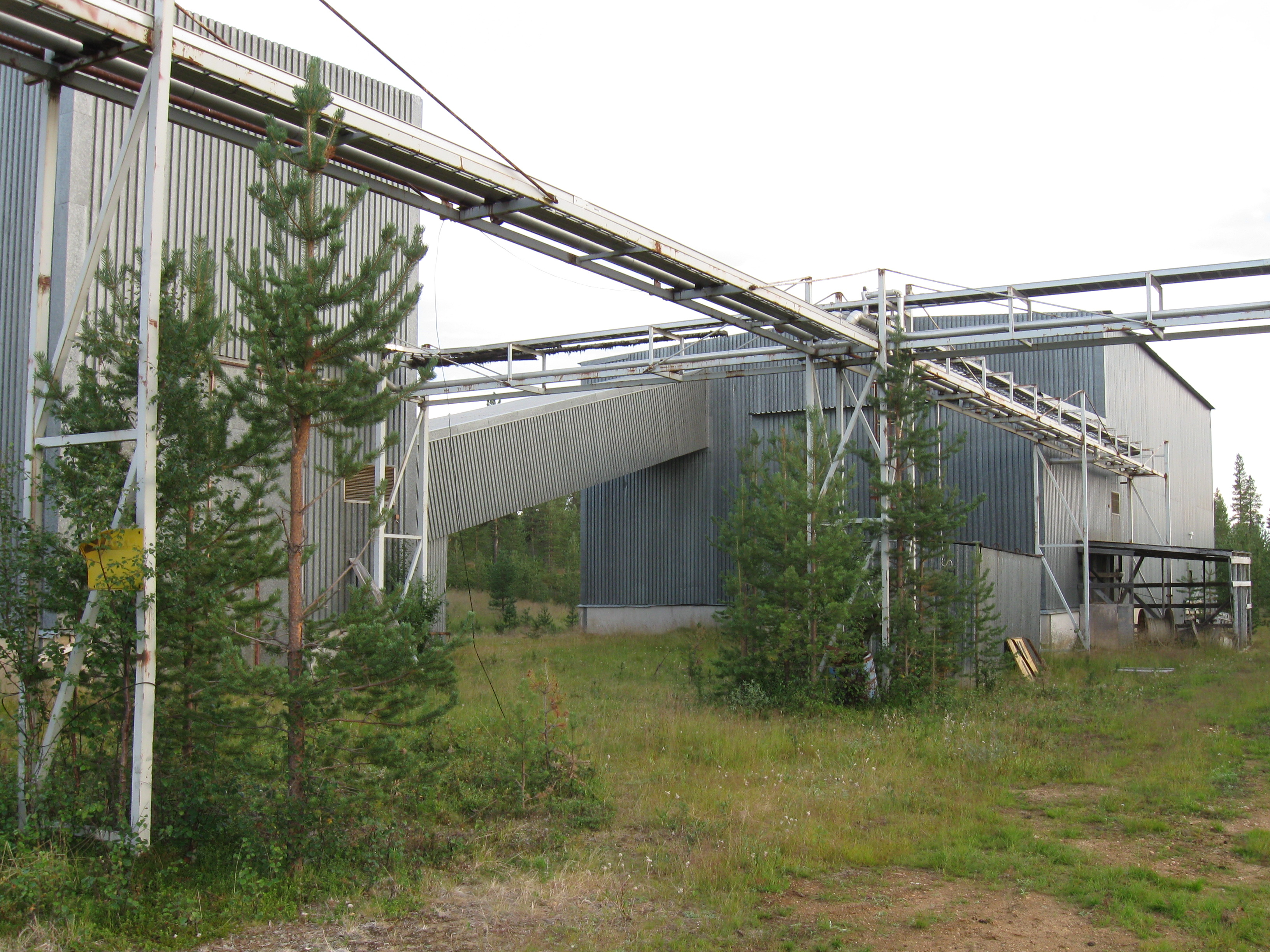 A view to the pilot plant built in the 1970s in Tulppio, Savukoski, Finland, related to the Sokli carbonatite complex, in July 2013.